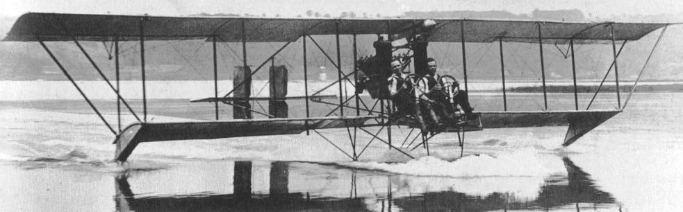 A Model TA converted as a hydroplane. This may be the improved version with a 65hp Kirkham as it has dual controls.